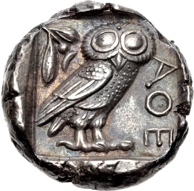 Attica, Athens. 454-404 BC. AR Tetradrachm (16.85 g). Helmeted head of Athena right / ΑΘΕ, owl standing right; olive-sprig and crescent above. SNG Copenhagen 39.